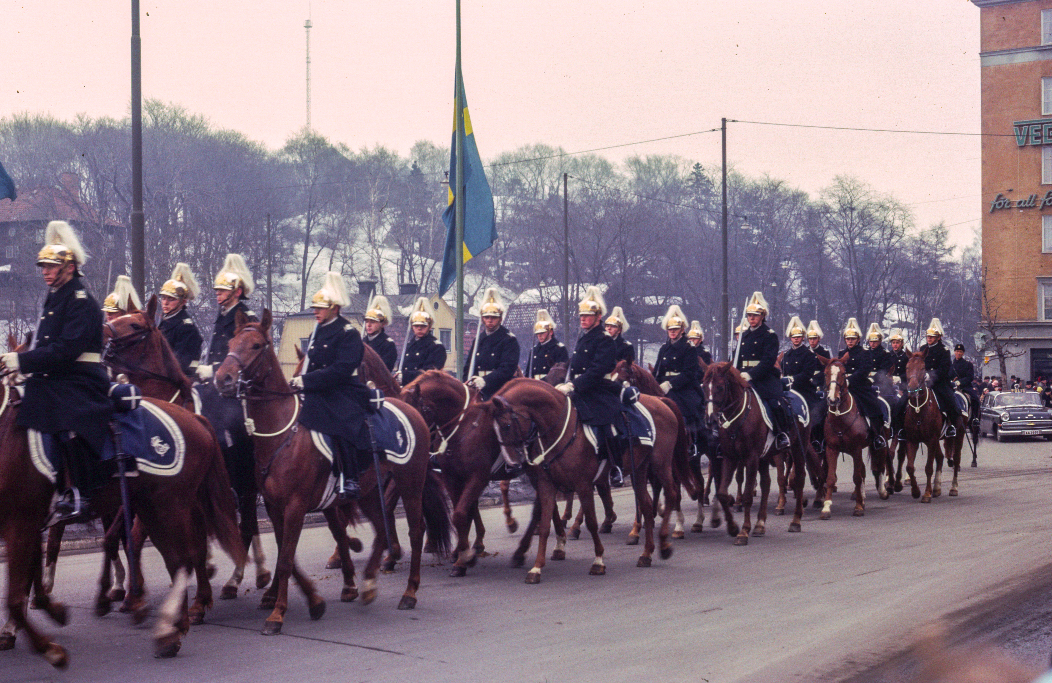 House guards following carriage.